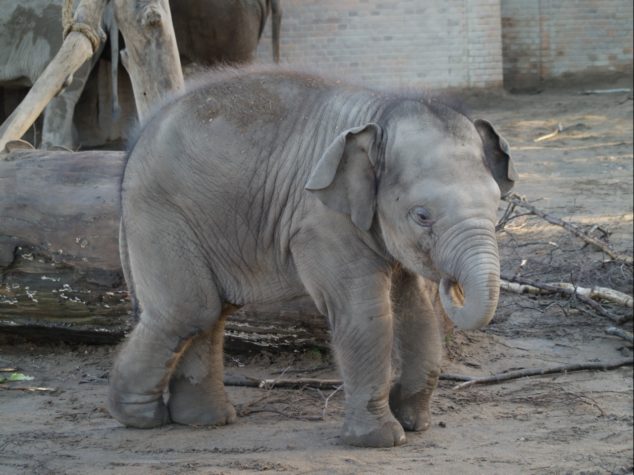 Cute "little" elefant baby.